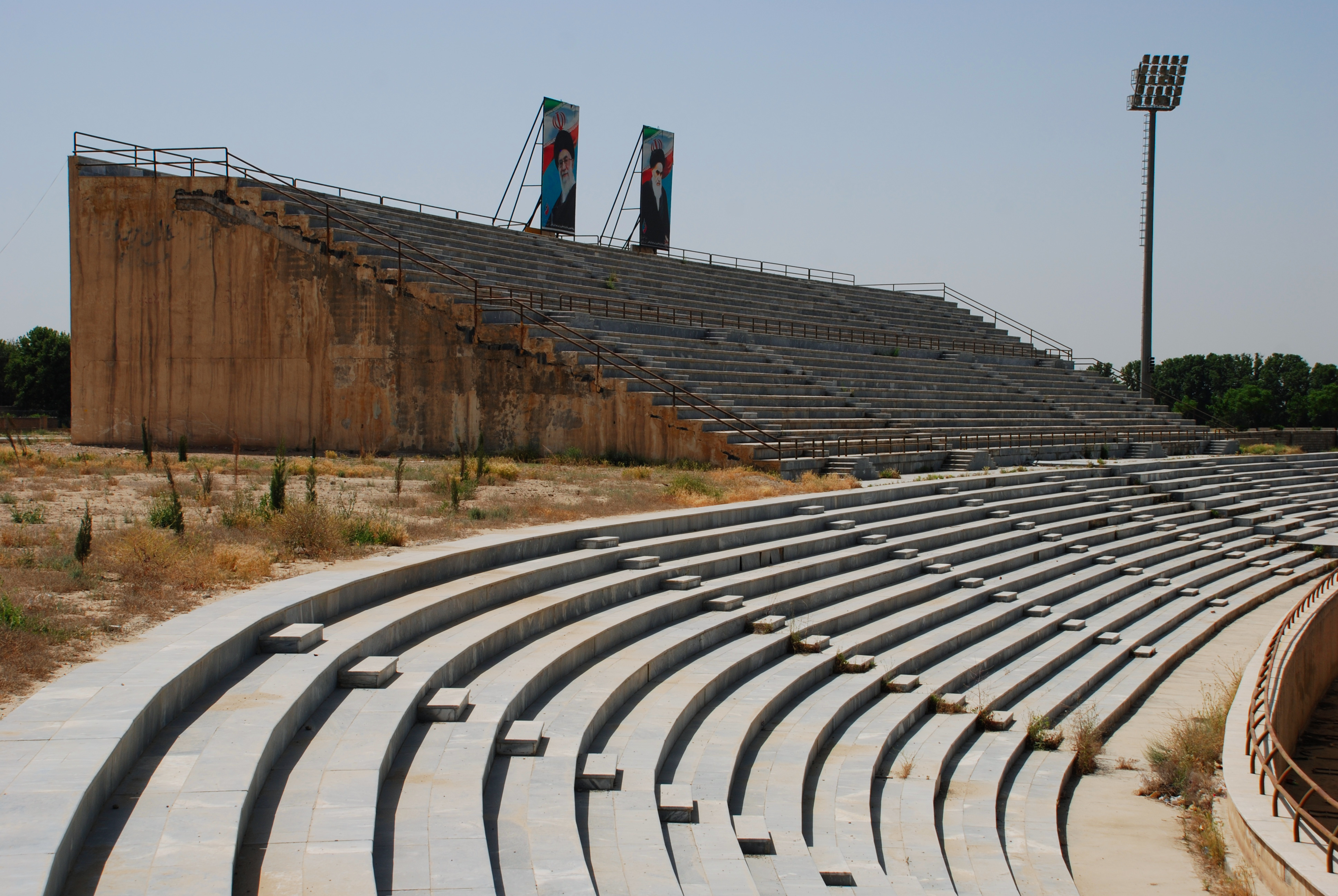 Ghods City (tehran) - Photo by: Alireza Habibi